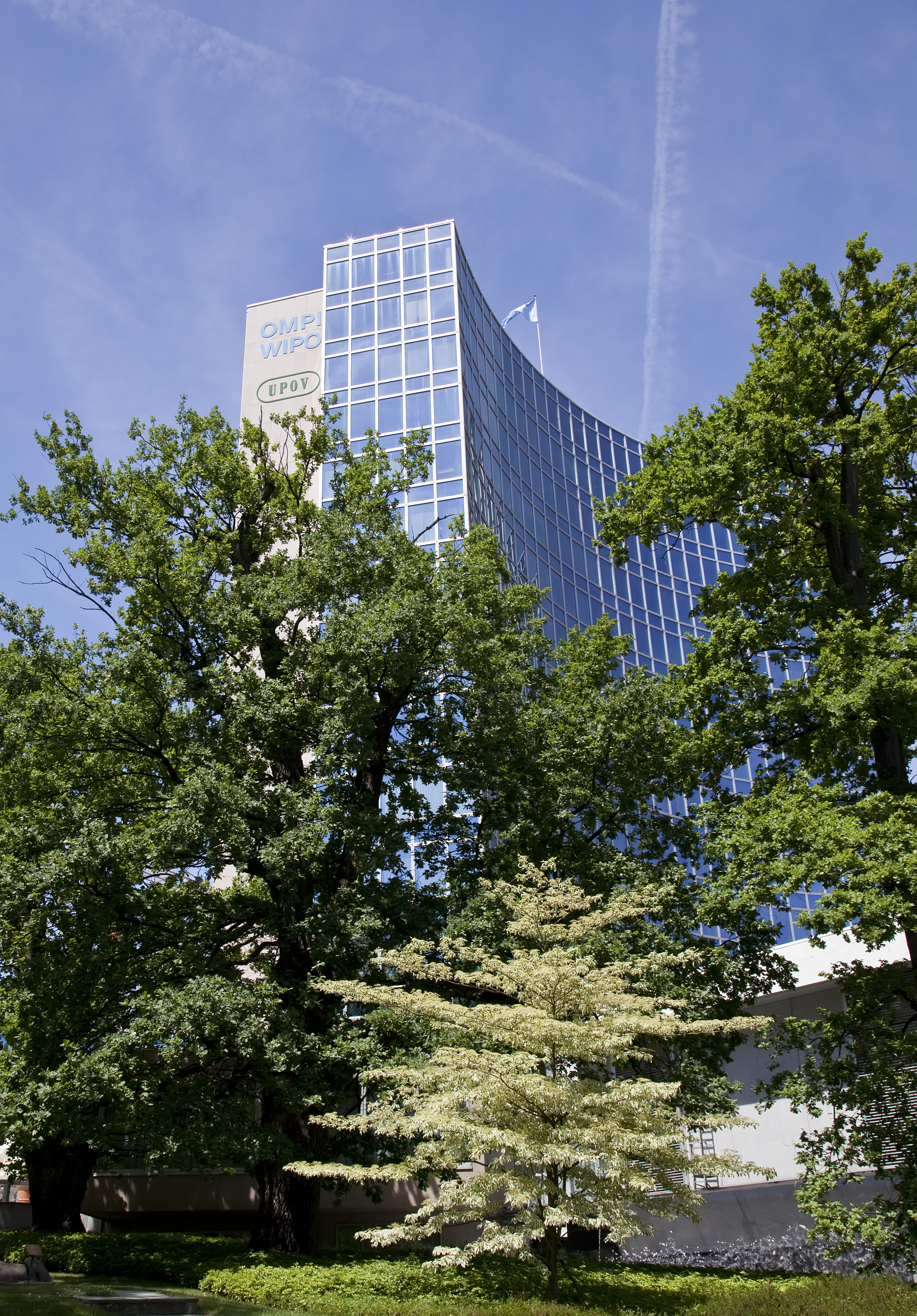 World Intellectual Property Organization (WIPO) and International Union for the Protection of New Varieties of Plants (UPOV) Headquarters (the Árpád Bogsch Building also known as the Main Building) in Geneva, Switzerland